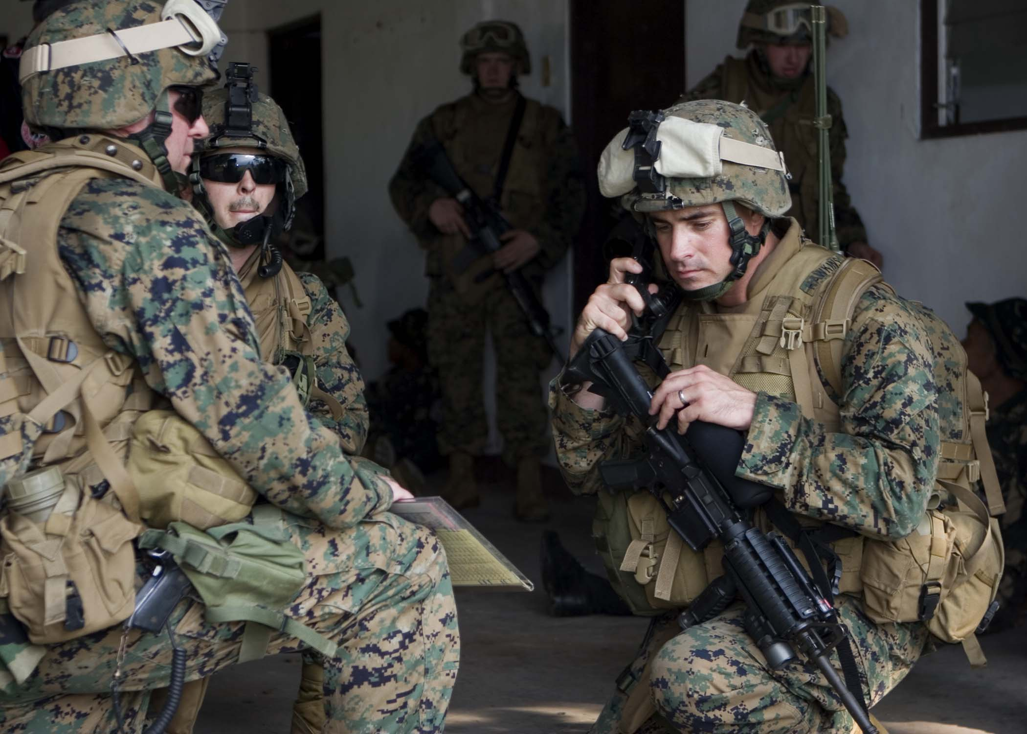 REPUBLIC OF THE PHILIPPINES--U.S. Marines from and sailors from Battalion Landing Team 1st Battalion, 5th Marine Regiment of the 31st Marine Expeditionary Unit, await extraction after completing a helicopter-borne raid at Basa Air Base on Oct. 15, 2006. The raid was executed with the assistance from members of the Philippine Air Force as part of bilateral training exercises Talon Vision and Amphibious Landing Exercise FY 2007. The annual exercises are designed to enhance interoperability and professional relations between the Armed Forces of the U.S. and Philippines.